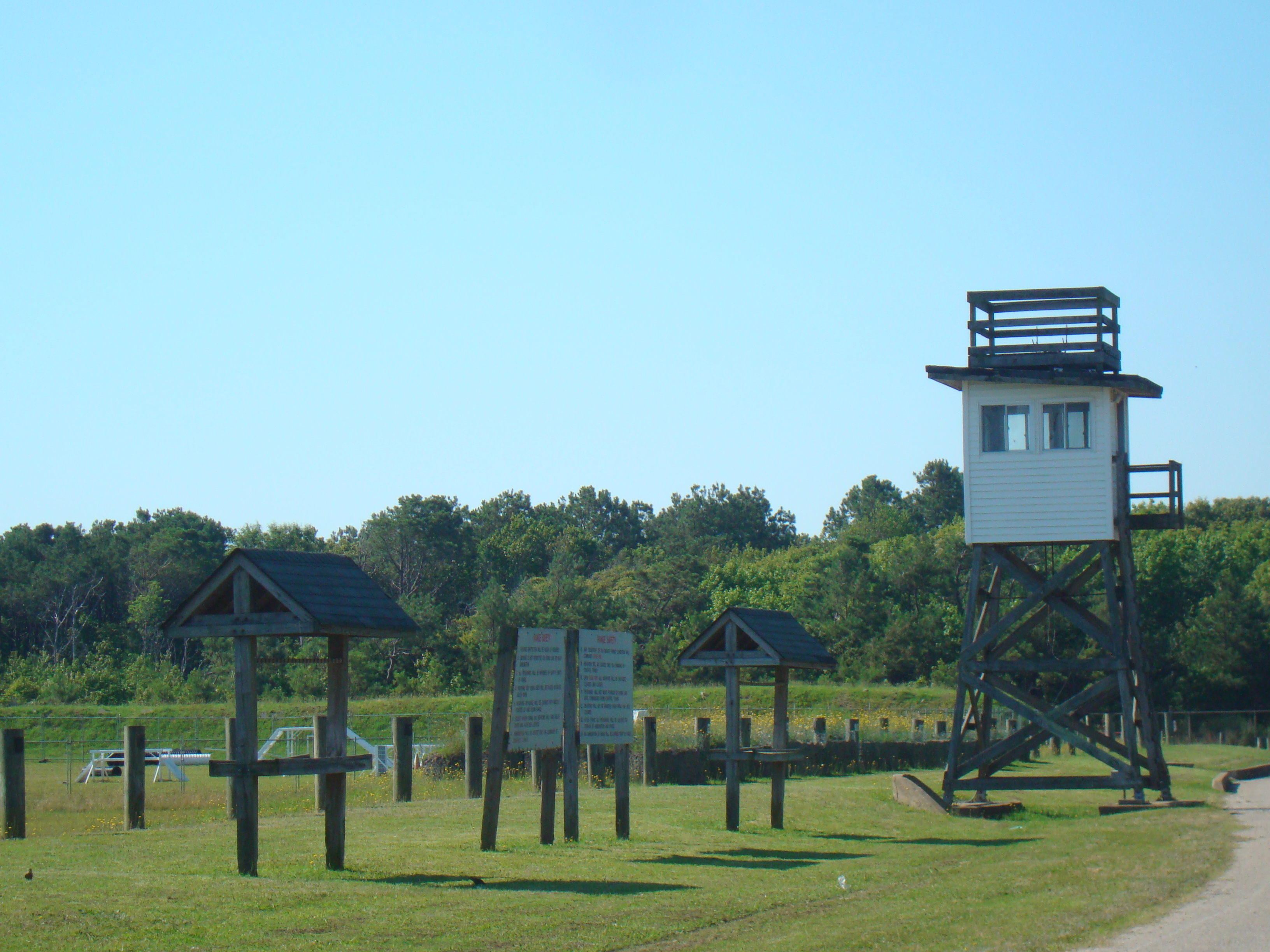 Rifle range and range tower at Camp Pendleton in Virginia Beach, Virginia. The Atlantic Ocean is just over the far dune\berm. The Canine(?) Obstable Course is in the distance on the left, in front of the berm.